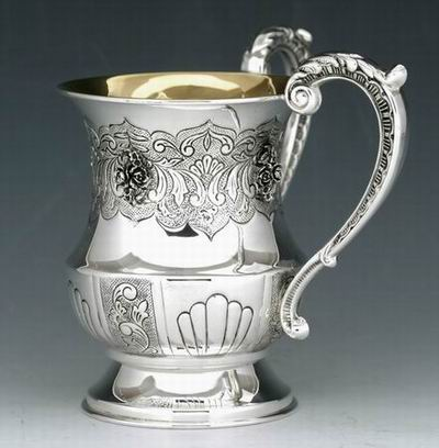 A Silver Washing Cup used in Judaism for Washing hands before meals especially on the Shabbat and Jewish holidays. This Silver Washing Cup was made by Hadad Brothers.